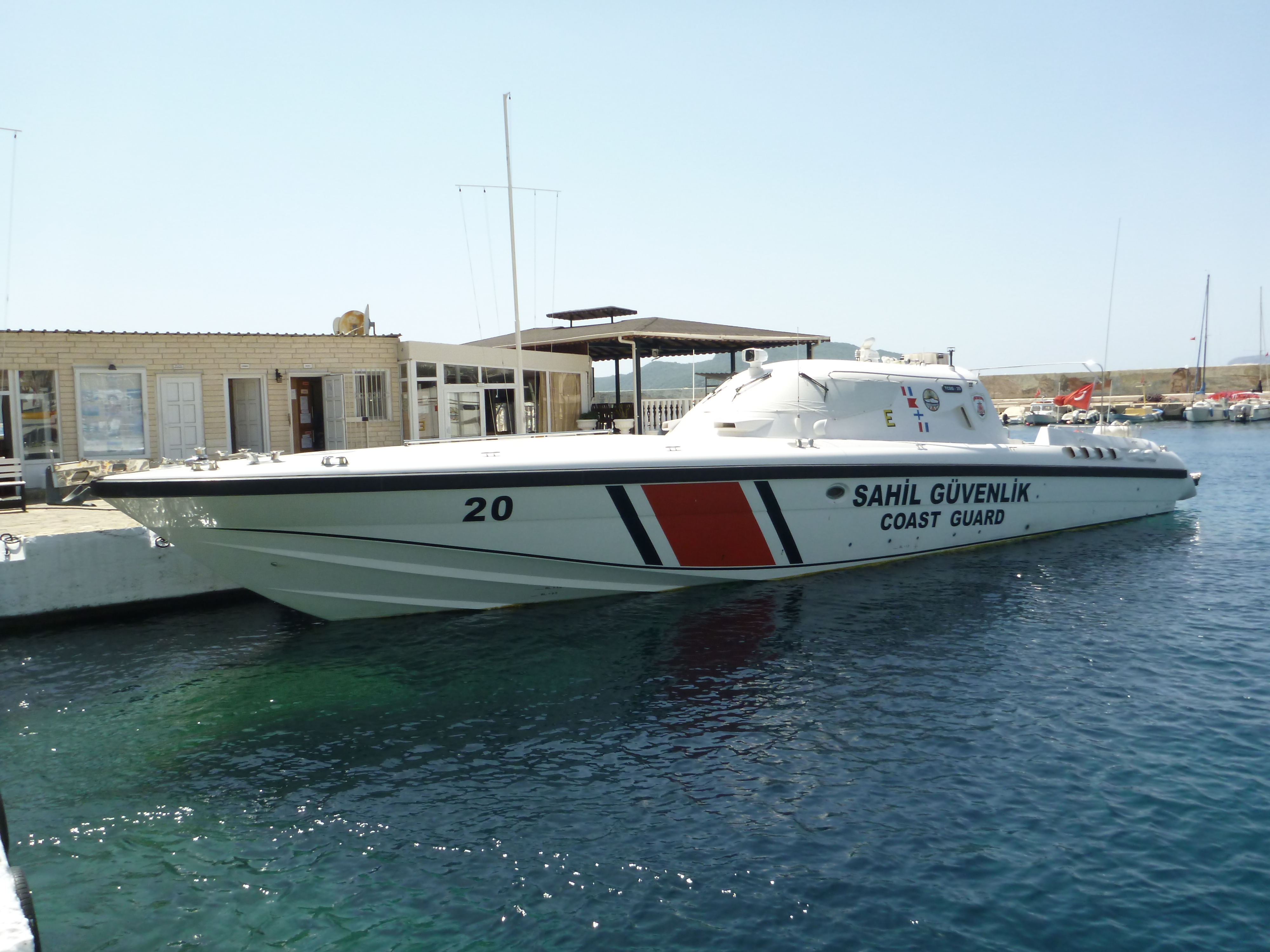 Boat of the Turkey Coast guard in Kas